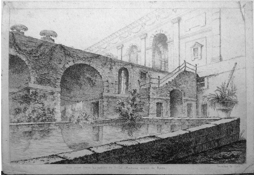 Jean Claude Richard, abbé de Saint-Non. View Park at Villa Madama near Rome. 1765. Aquatint print